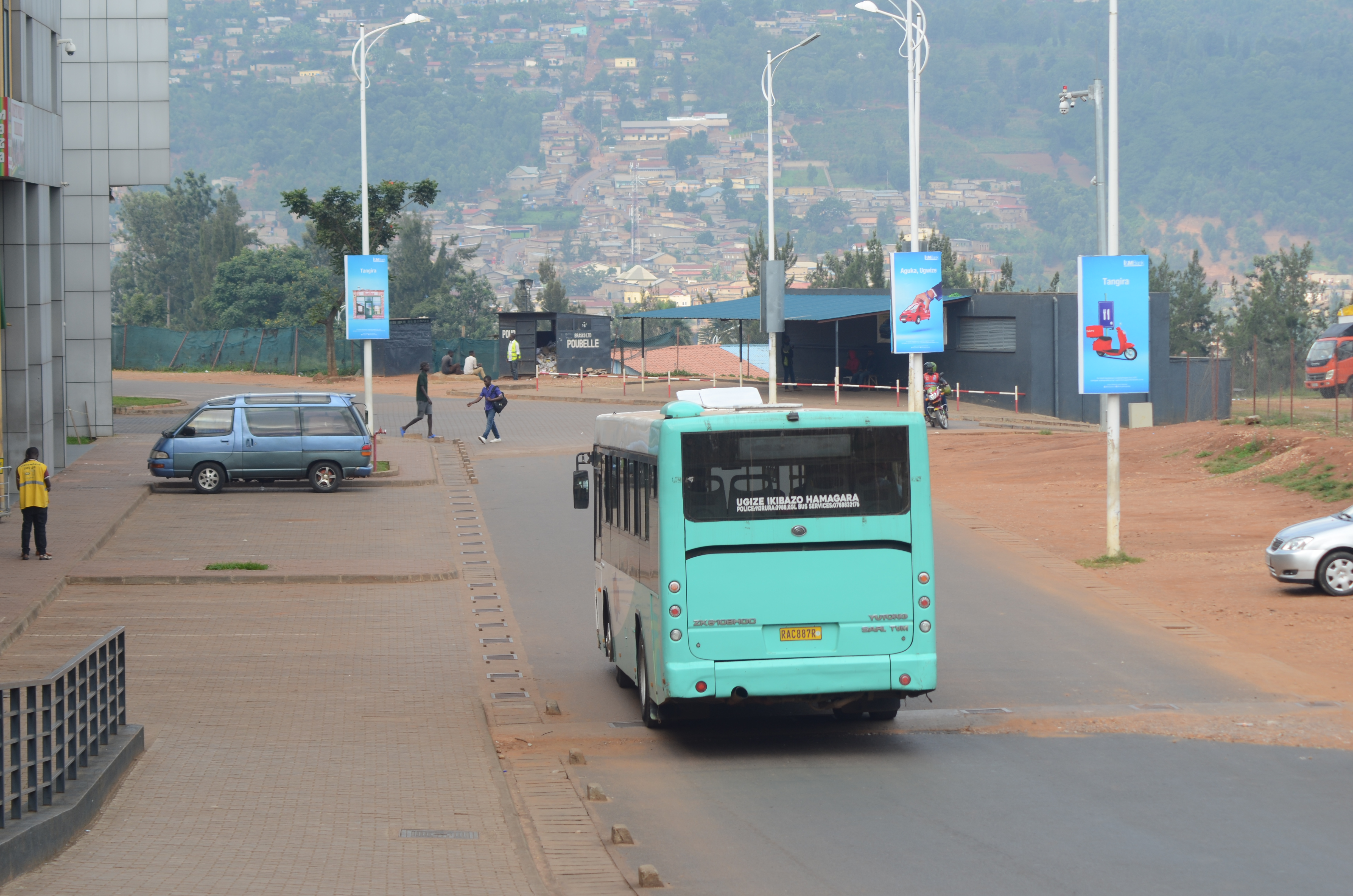 This is an image with the theme "Africa on the Move or Transport" from: Rwanda